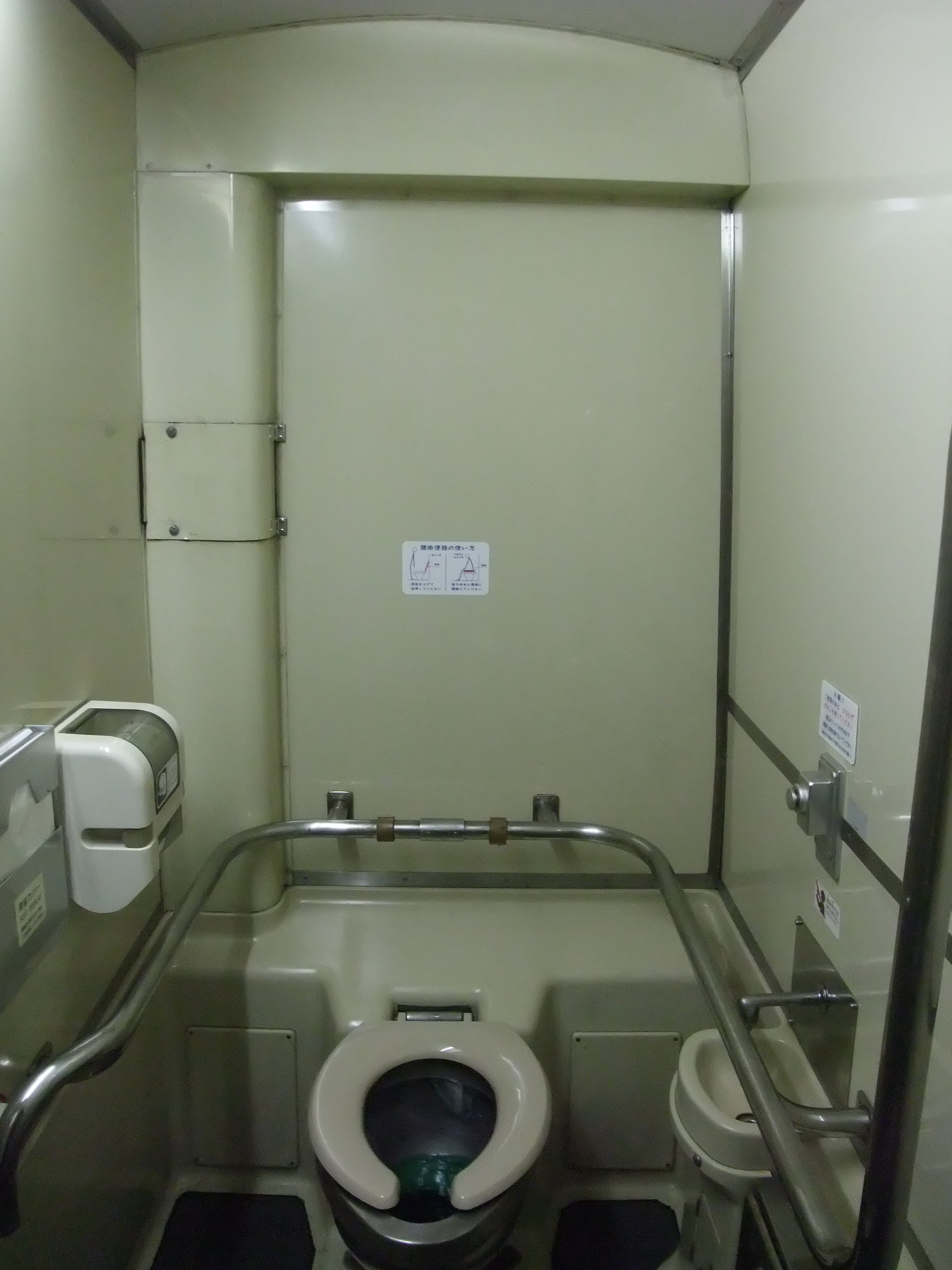 Shinkansen 0 series restroom